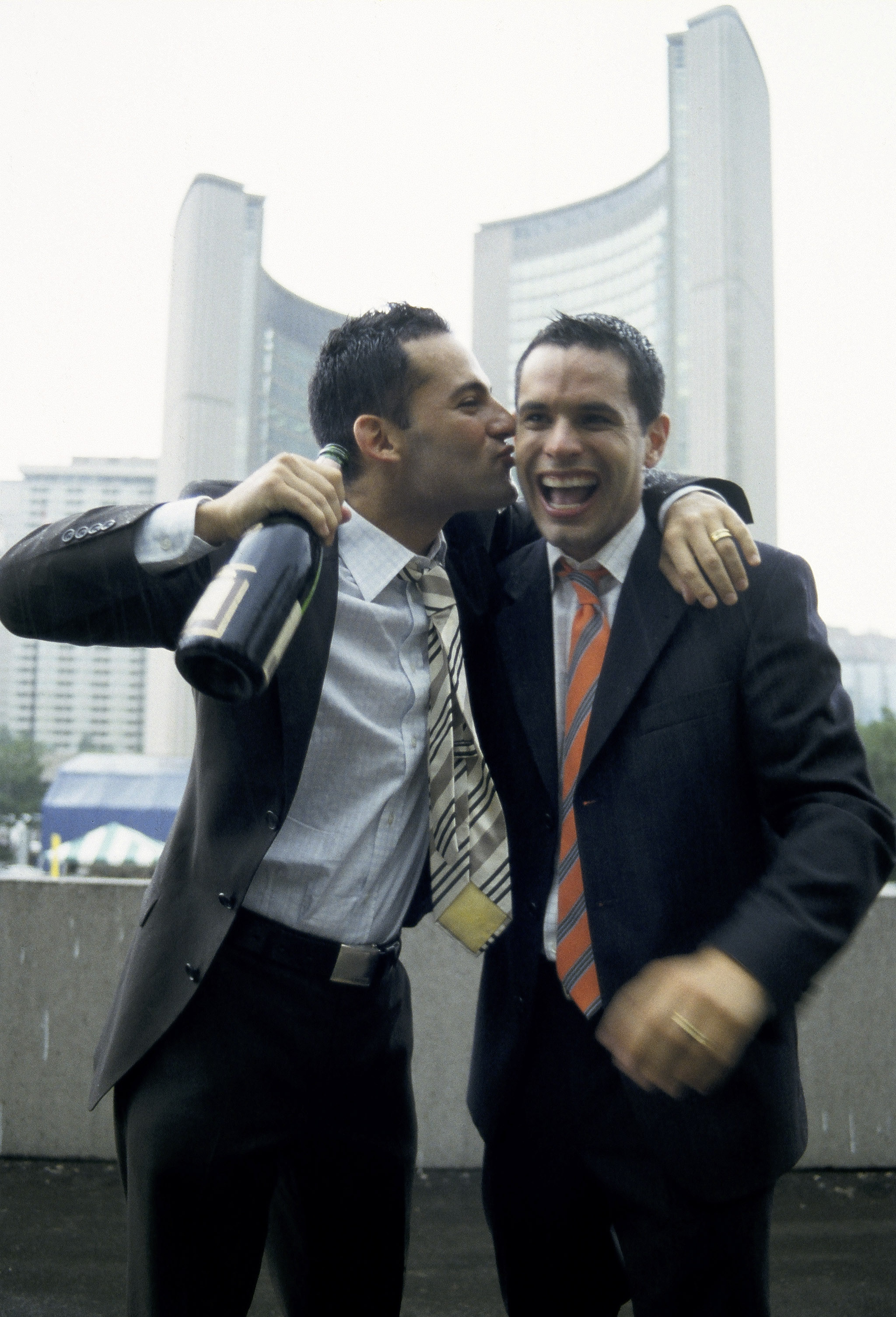 Wedding of Mathieu Chantelois and Marcelo Gomez in Toronto (Toronto City Hall in background), one of the first same-sex marriages in Canada. In 2003, the Ontario Court of Appeal overturned the ban on same-sex marriages in the province, making Ontario the first jurisdiction in Canada where same-sex marriages were legal. This event led Courts in 8 other Canadian provinces and one territory to render similar decisions, ultimately leading to the passage in 2005 of the Civil Marriage Act which legalized same-sex marriage across the entire country.